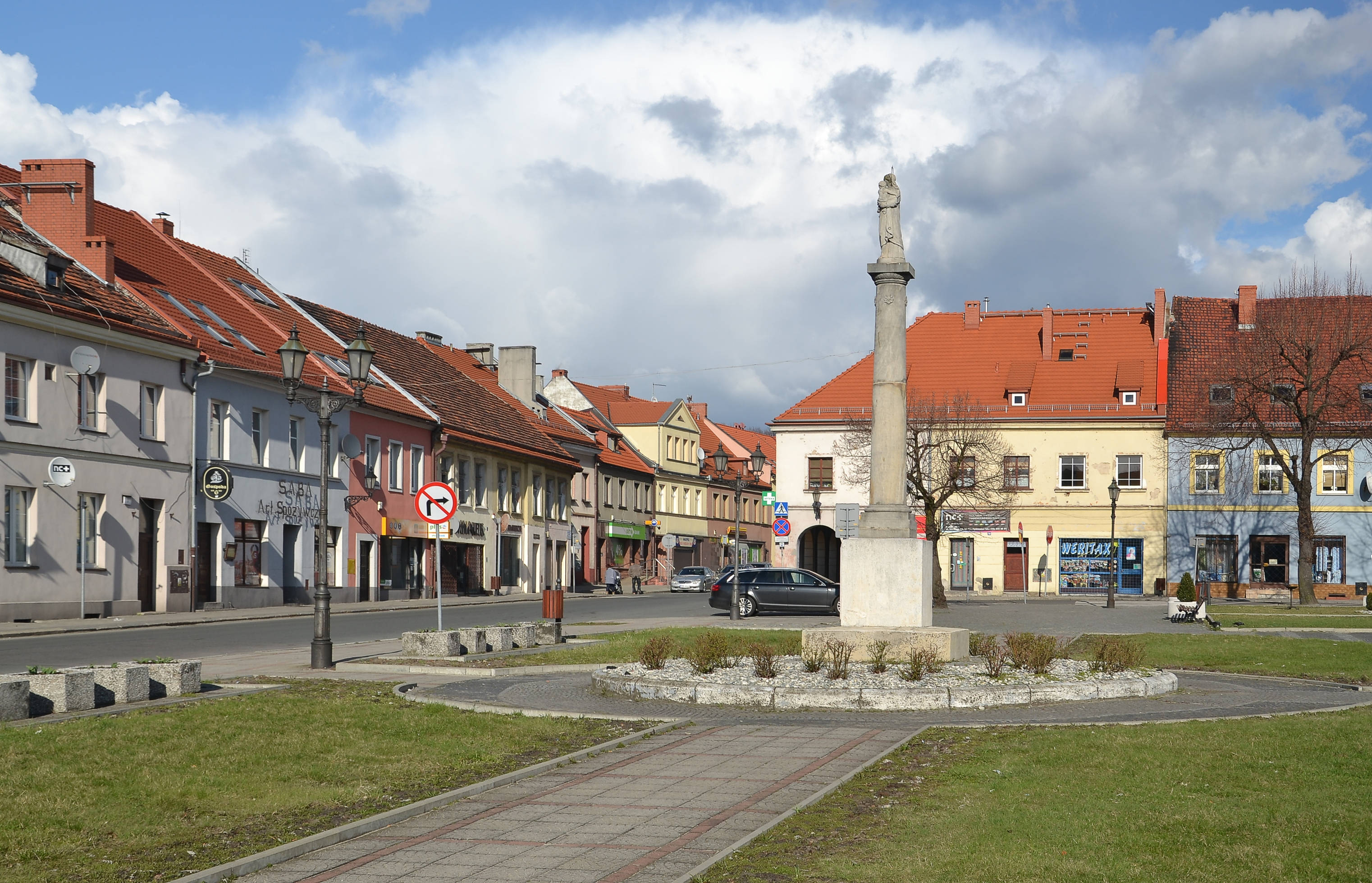 Pyskowice (Peiskretscham) - market square